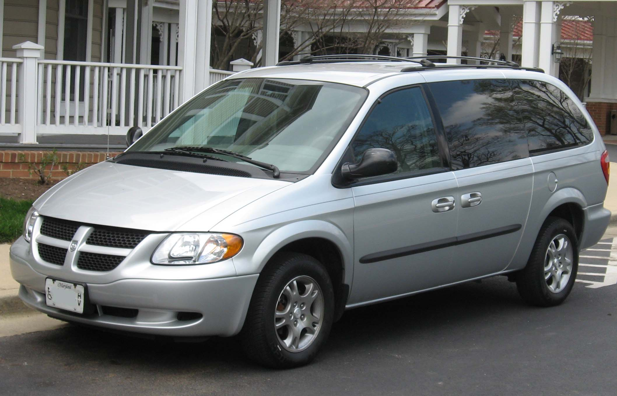 2001-2004 Dodge Grand Caravan photographed in USA.